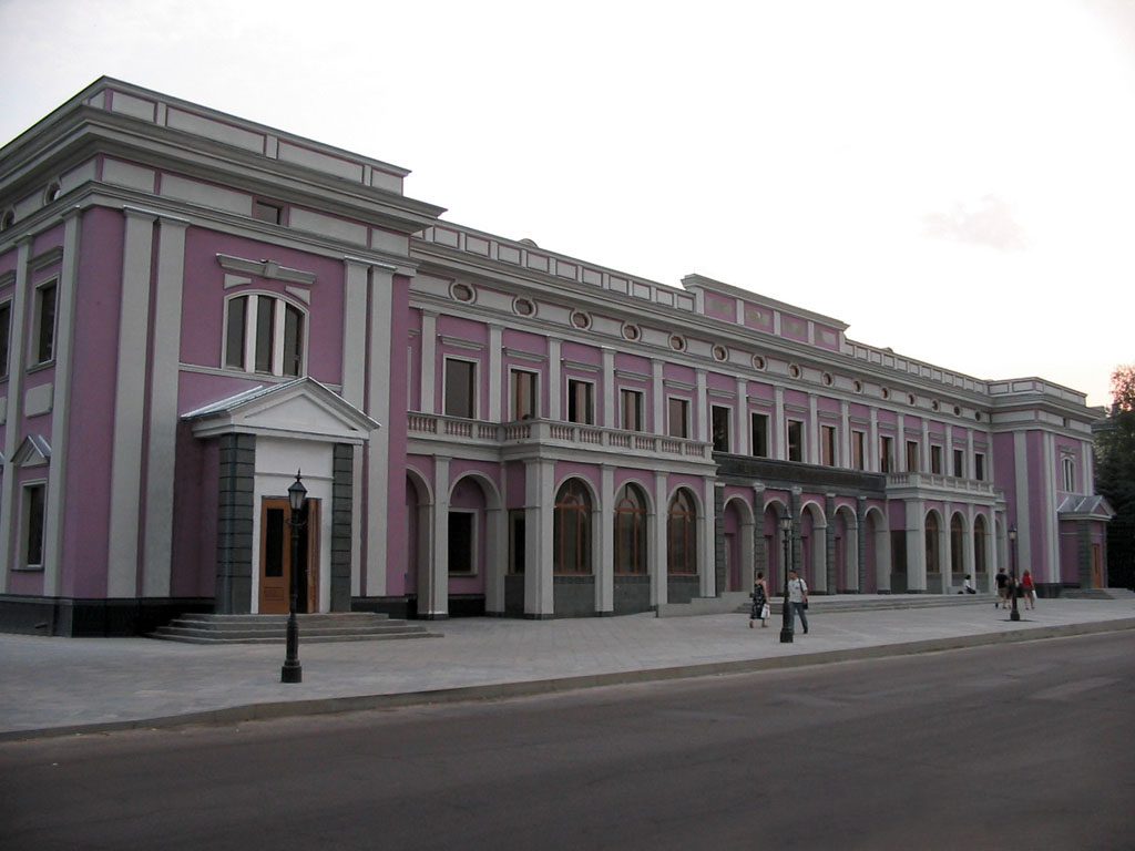 The Cherkasy Philarmonic in Cherkasy, Ukraine.